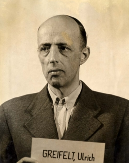 Mug shot of Ulrich Greifelt for RuSHA trial in Nuremberg.